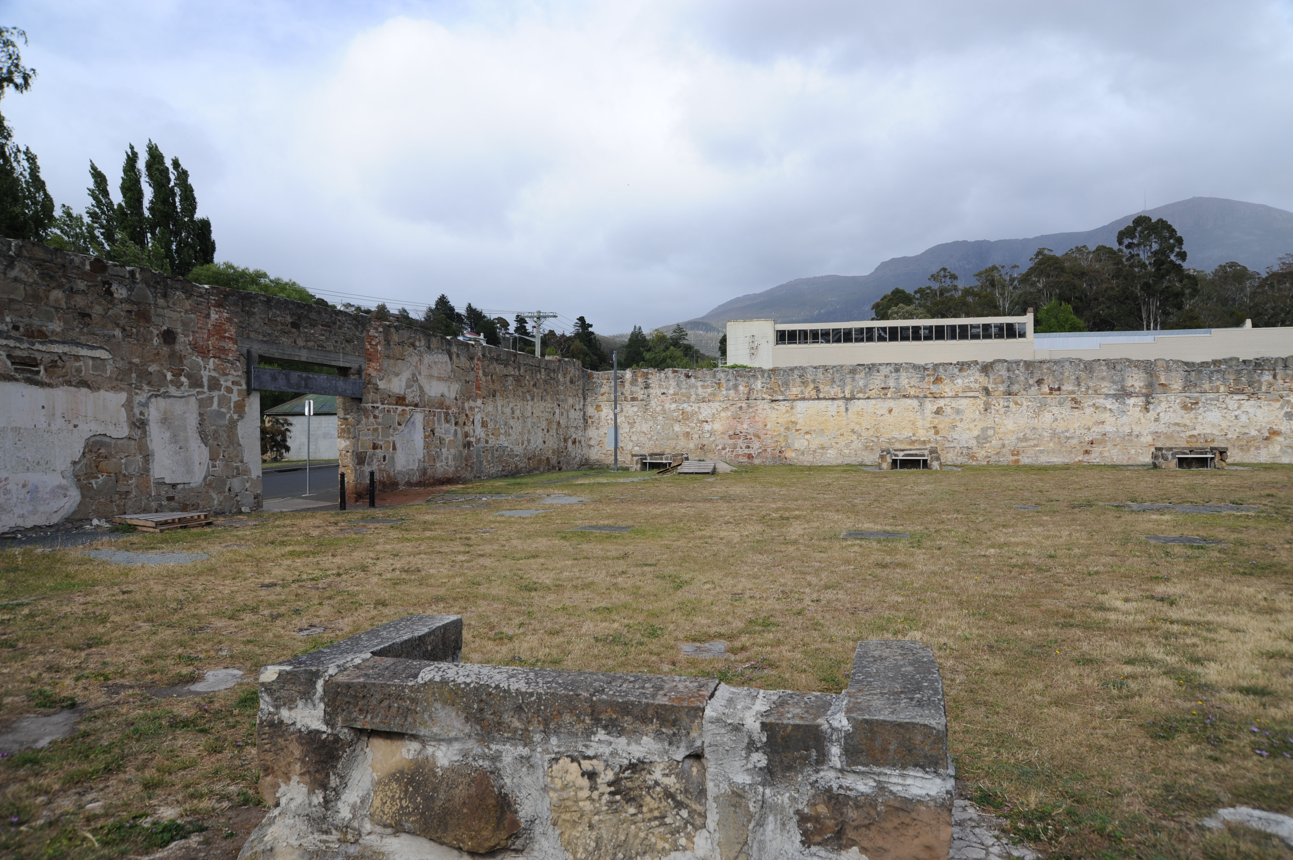 Cascades Female Factory, Hobart - from inside the sandstone wall remains of one of the yards.